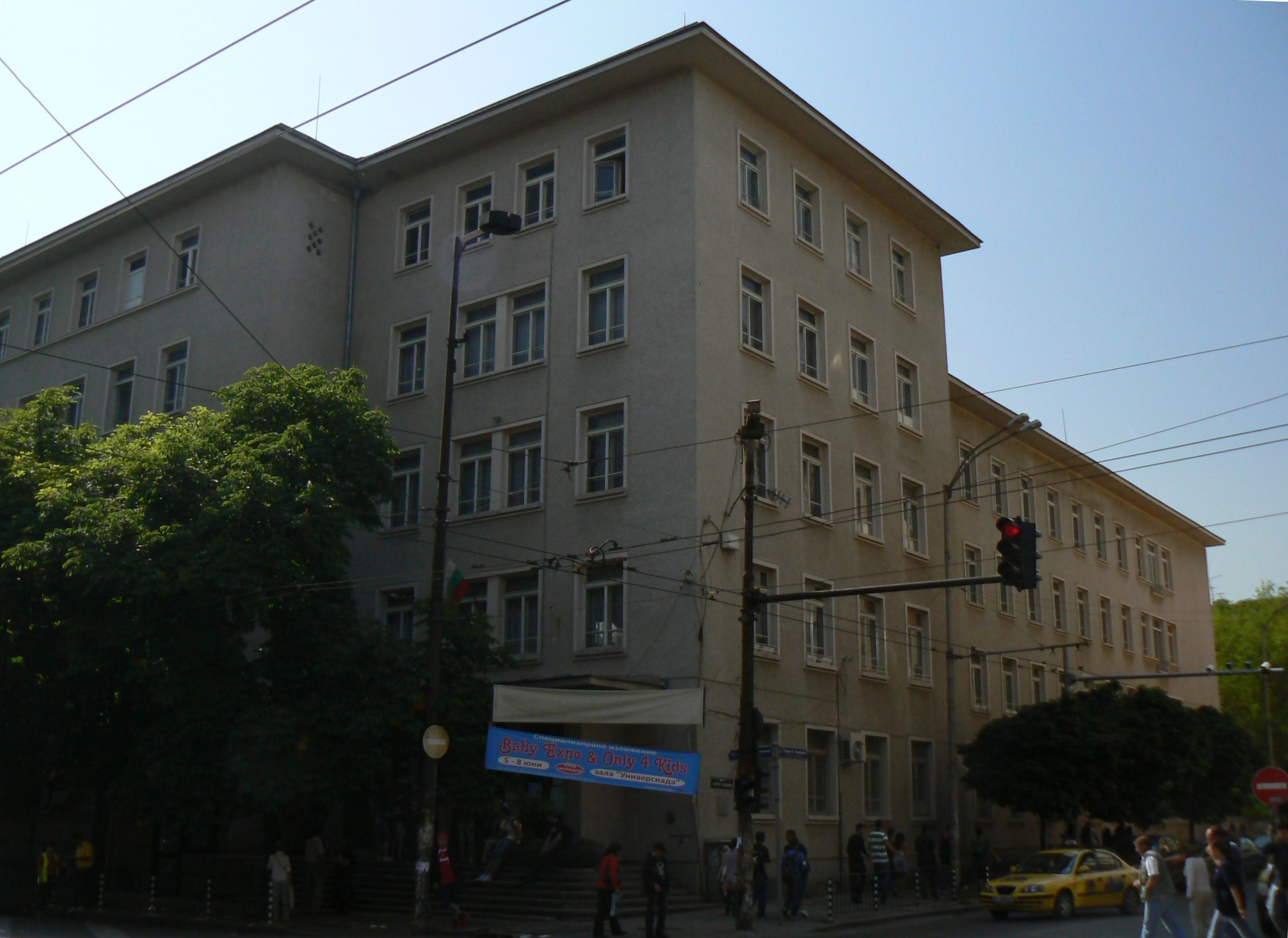 Building of 9-th French language school "Alphonse de Lamartine" in Sofia, Bulgaria